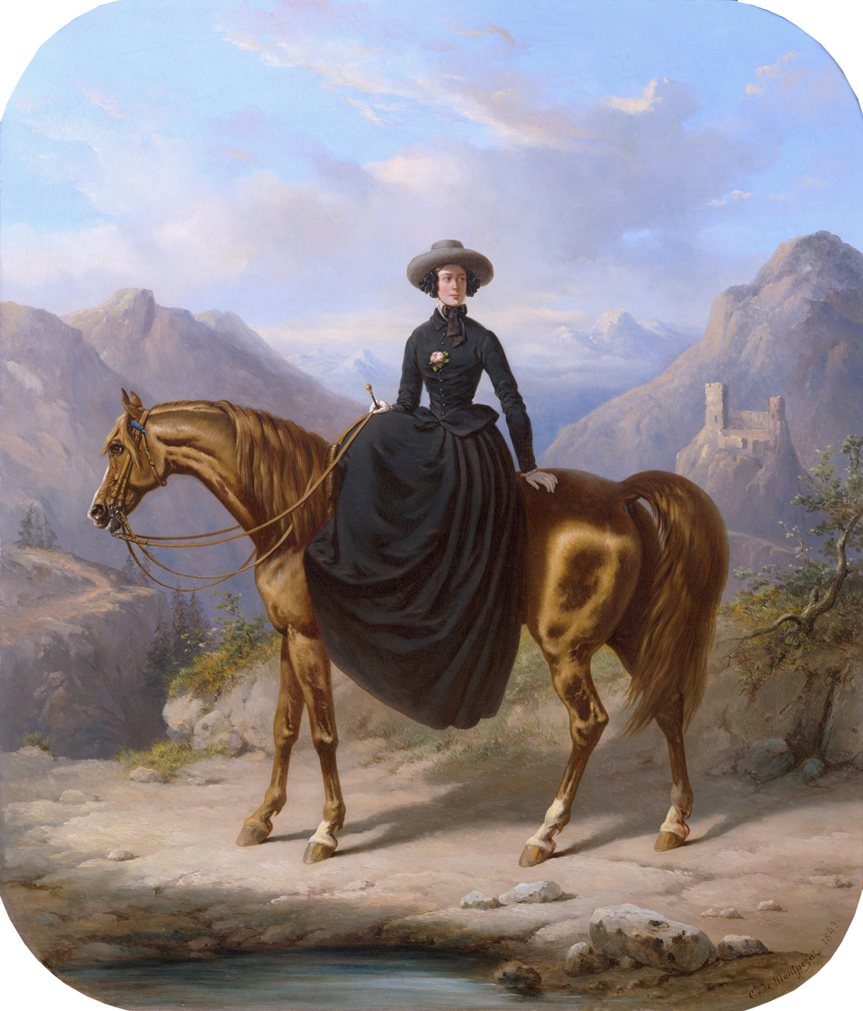 Alexandrine Pieternella Françoise Tinne (1835-1869)